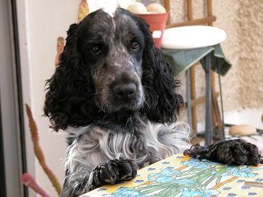 cocker-anglais.jpg